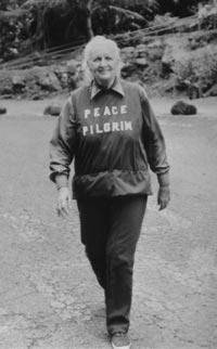 Photograph taken during the 1980 Hawaii Retreat.